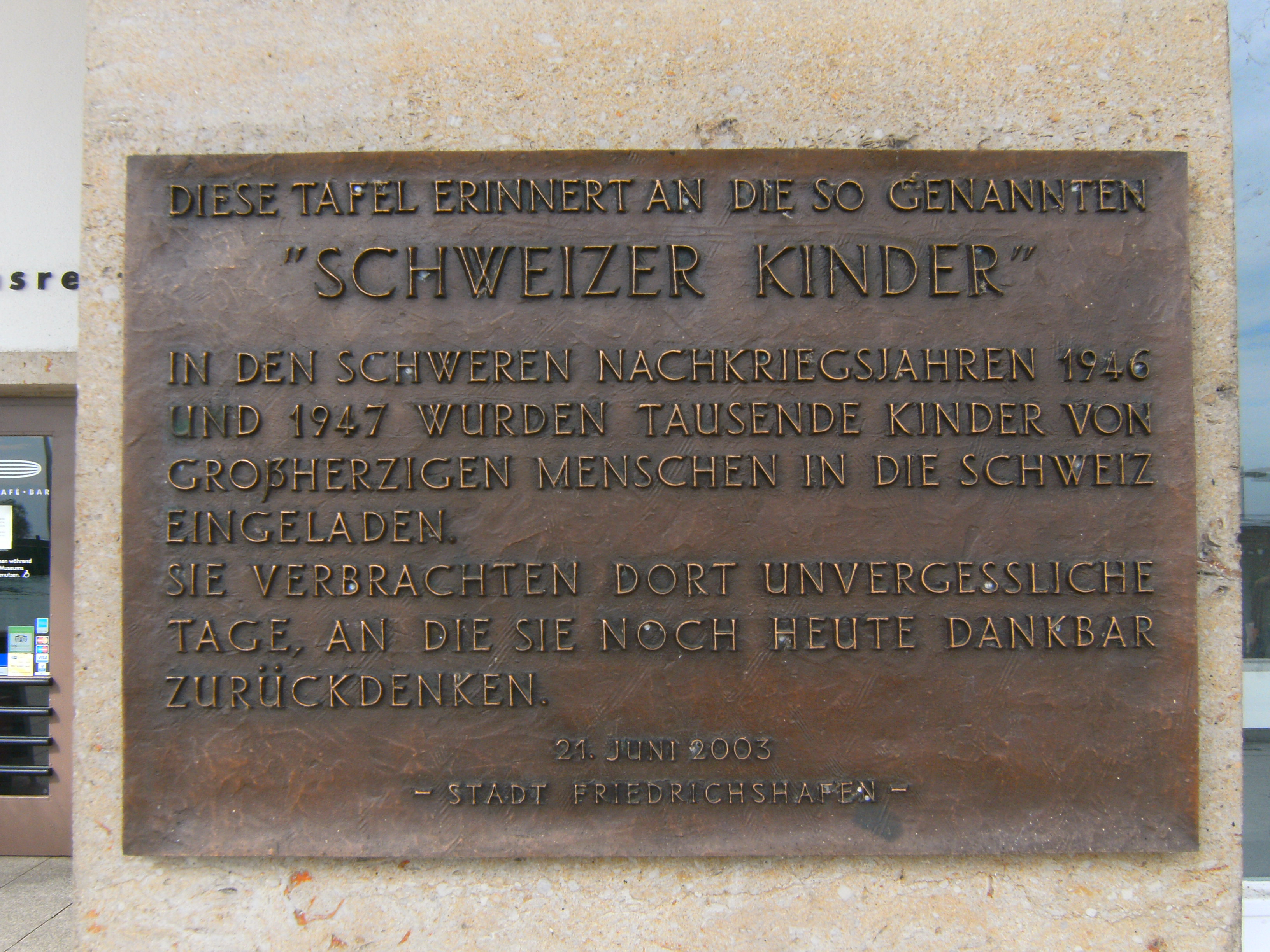 Harbour Friedrichshafen, Germany: Thanks to the Suiss people for helping the children in Germany in the post-war period. Plaque.